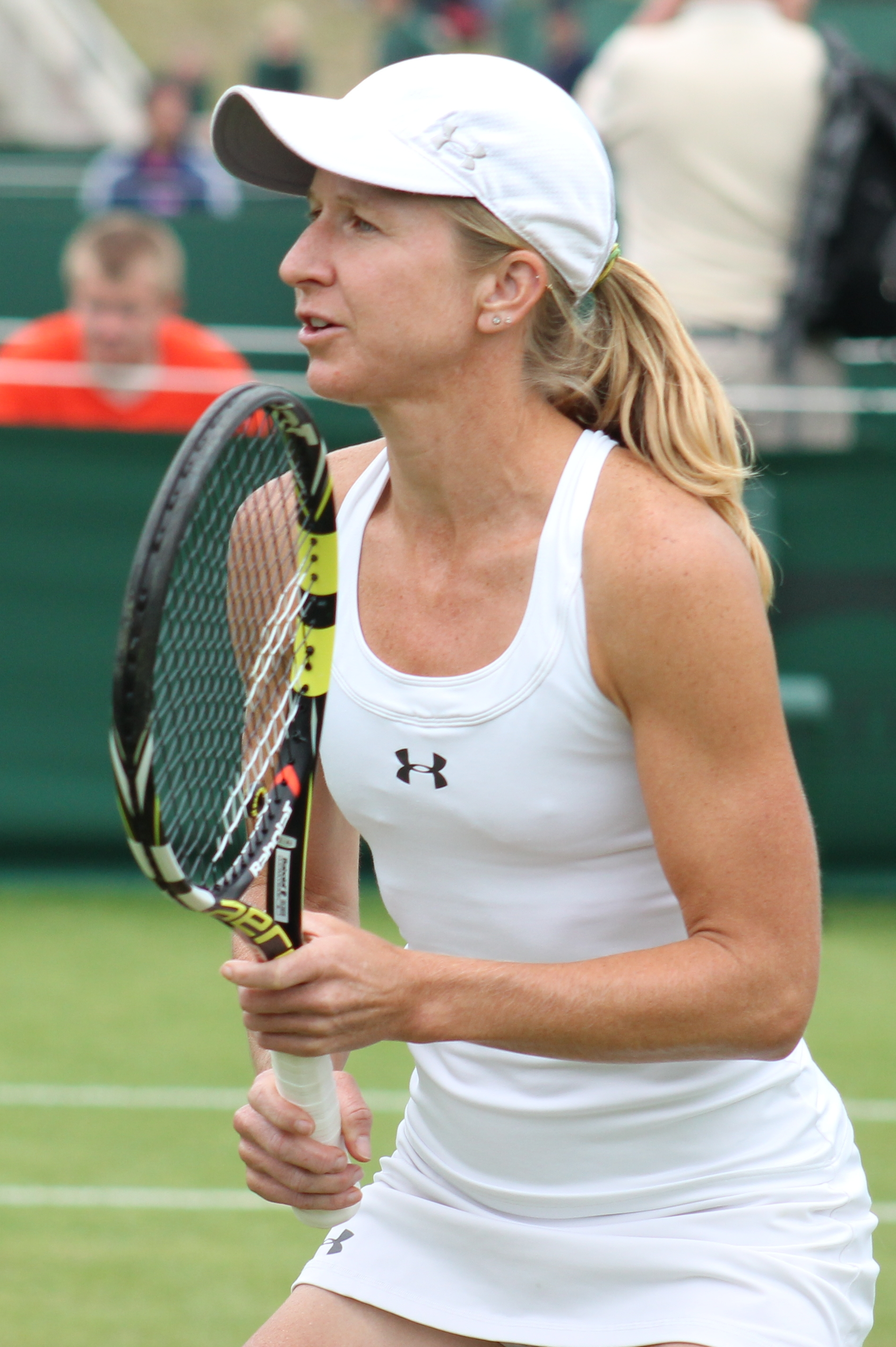 Jill Craybas, 2013 Wimbledon Qualifying Tournament